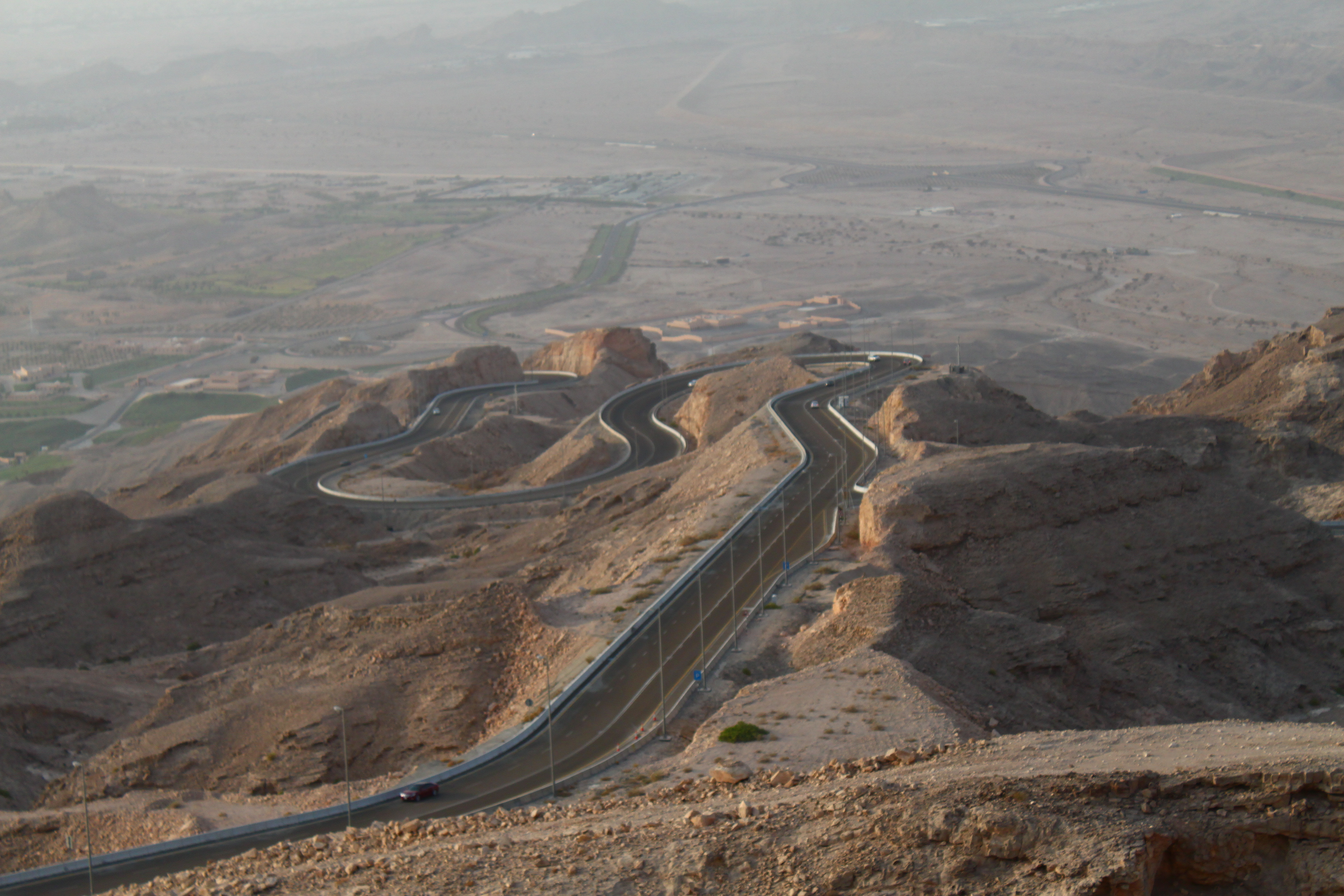 Personal Collection